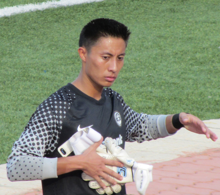 Soram Anganba (born June 7, 1991) is an Indian footballer who currently plays for Pailan Arrows in the I-League